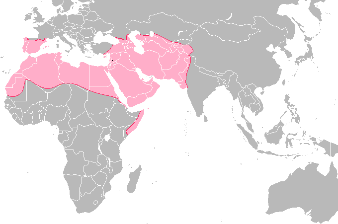 Map of the Umayyad Caliphate in 750 CE.